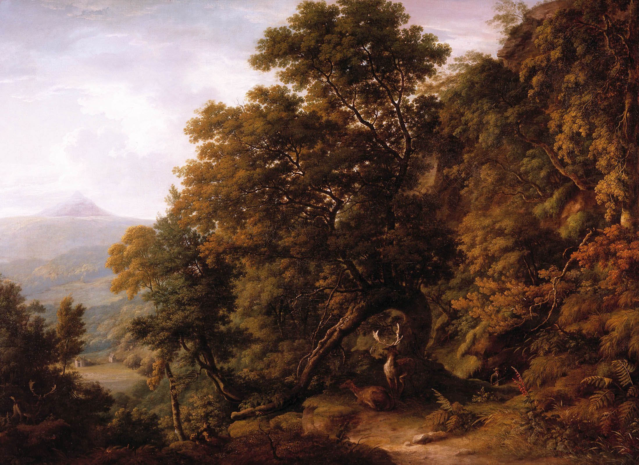 View of Powerscourt Demesne. Oil on Canvas. signed. 43 1/4 x 59 in. (109.9 x 150 cm).